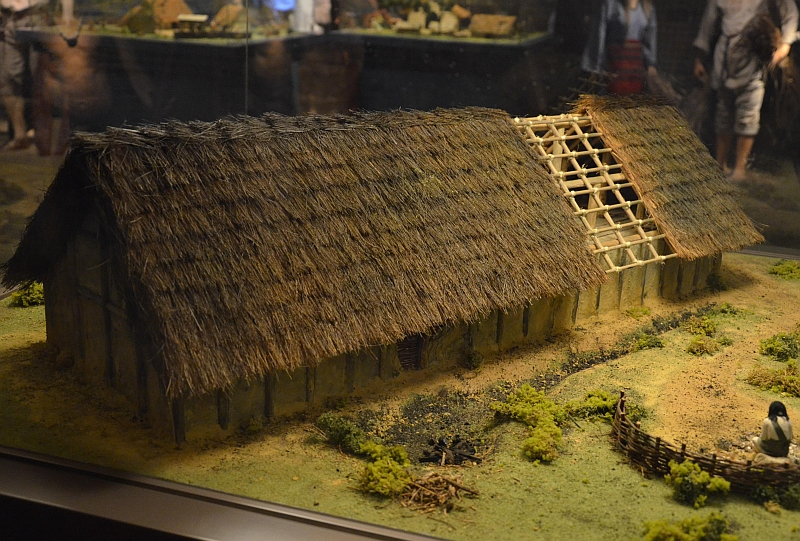 Category:Architecture of Poland by century